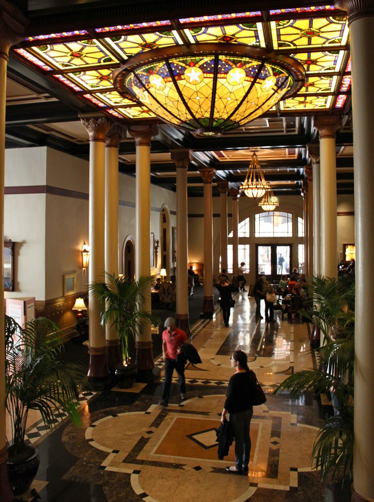 Hotel Lobby of the Driskill, Austin